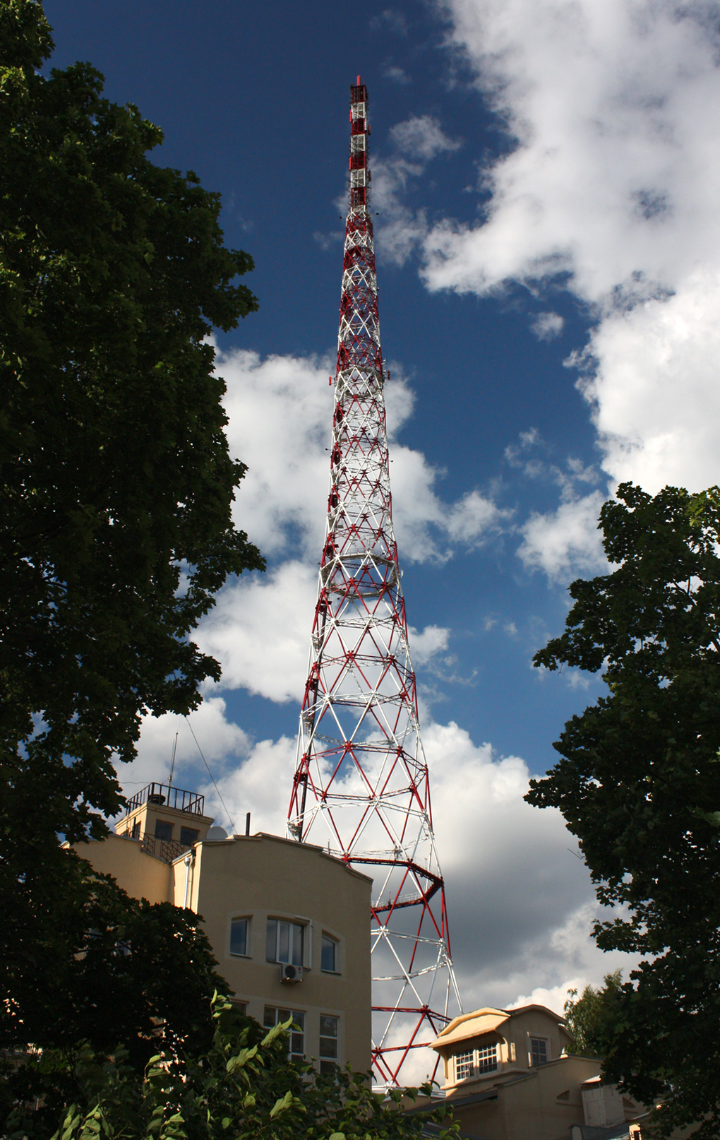 Radio television tower of the Oktjabrskij radio centre (Moscow, Damian Bednogo's street, 24)